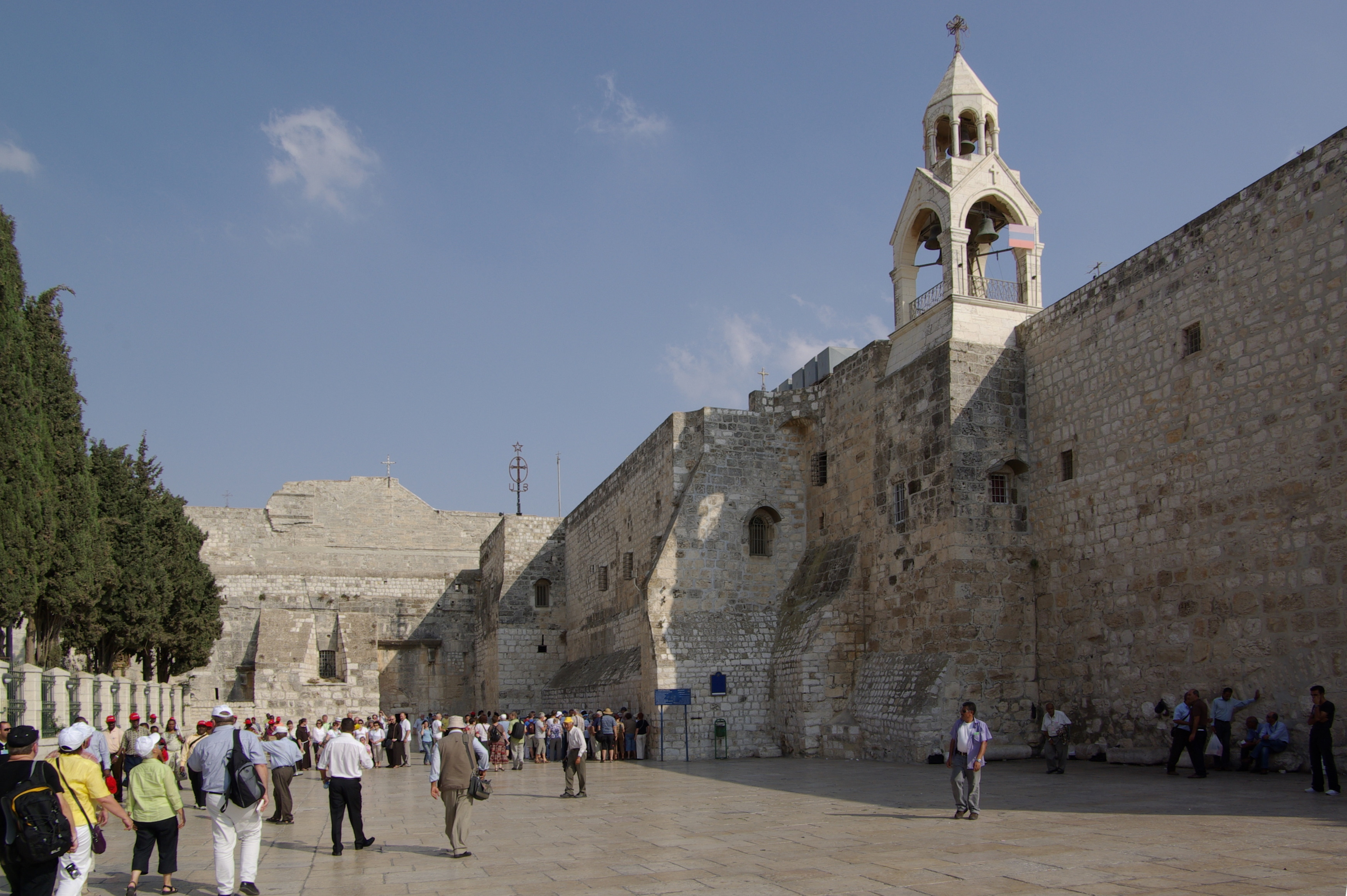 Bethlehem, Church of the nativity